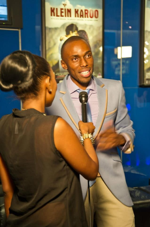 Sisanda being interviewed at the Klein Karoo premiere